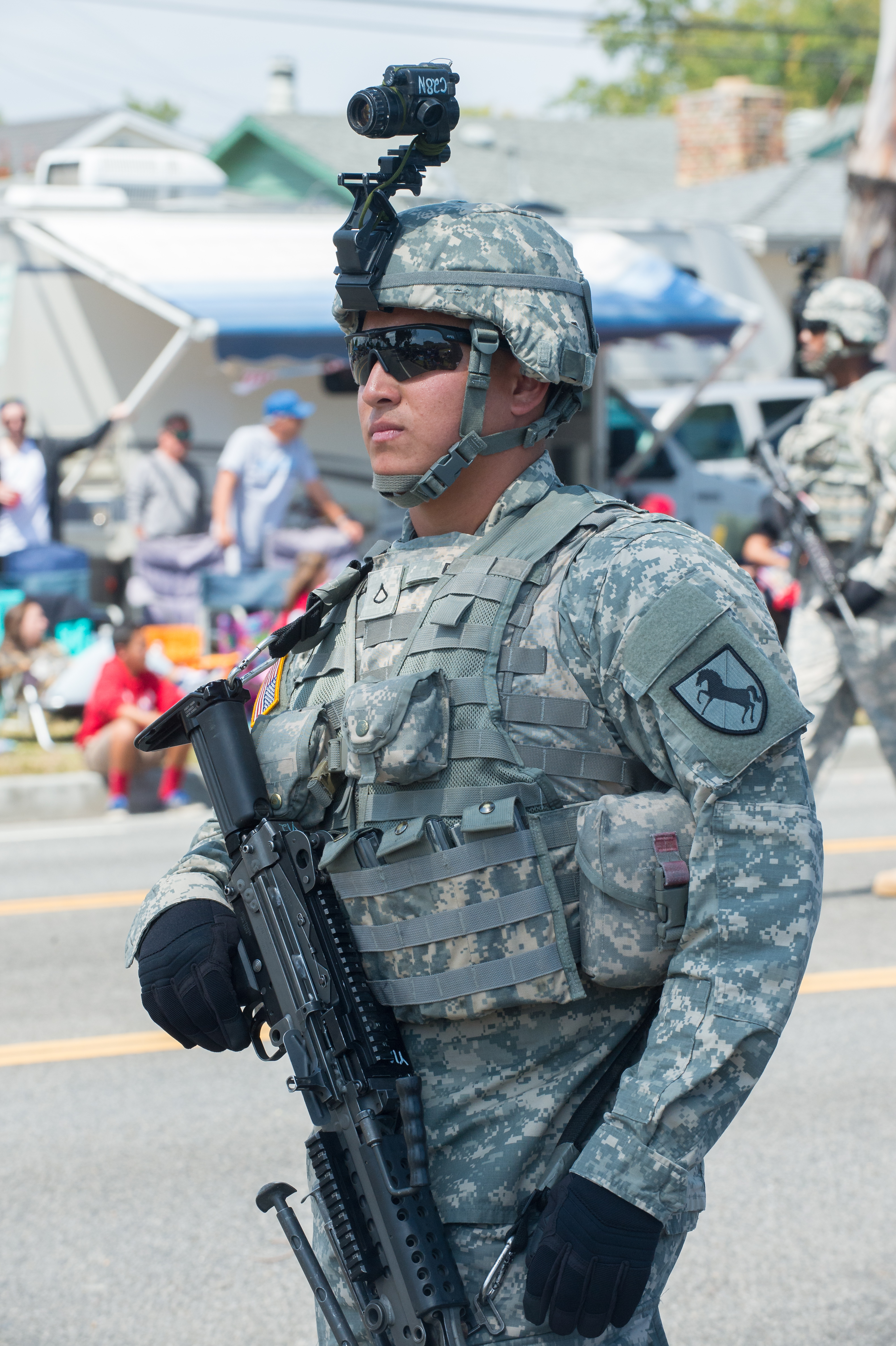 US Army